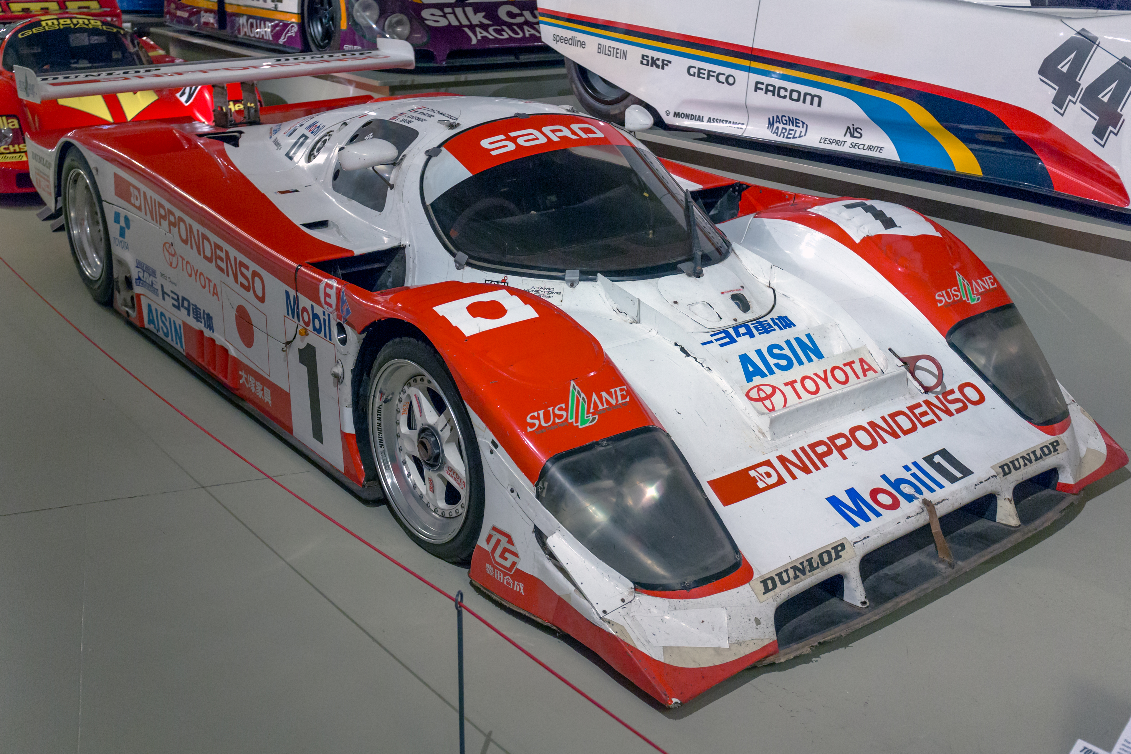 Toyota 94C-V